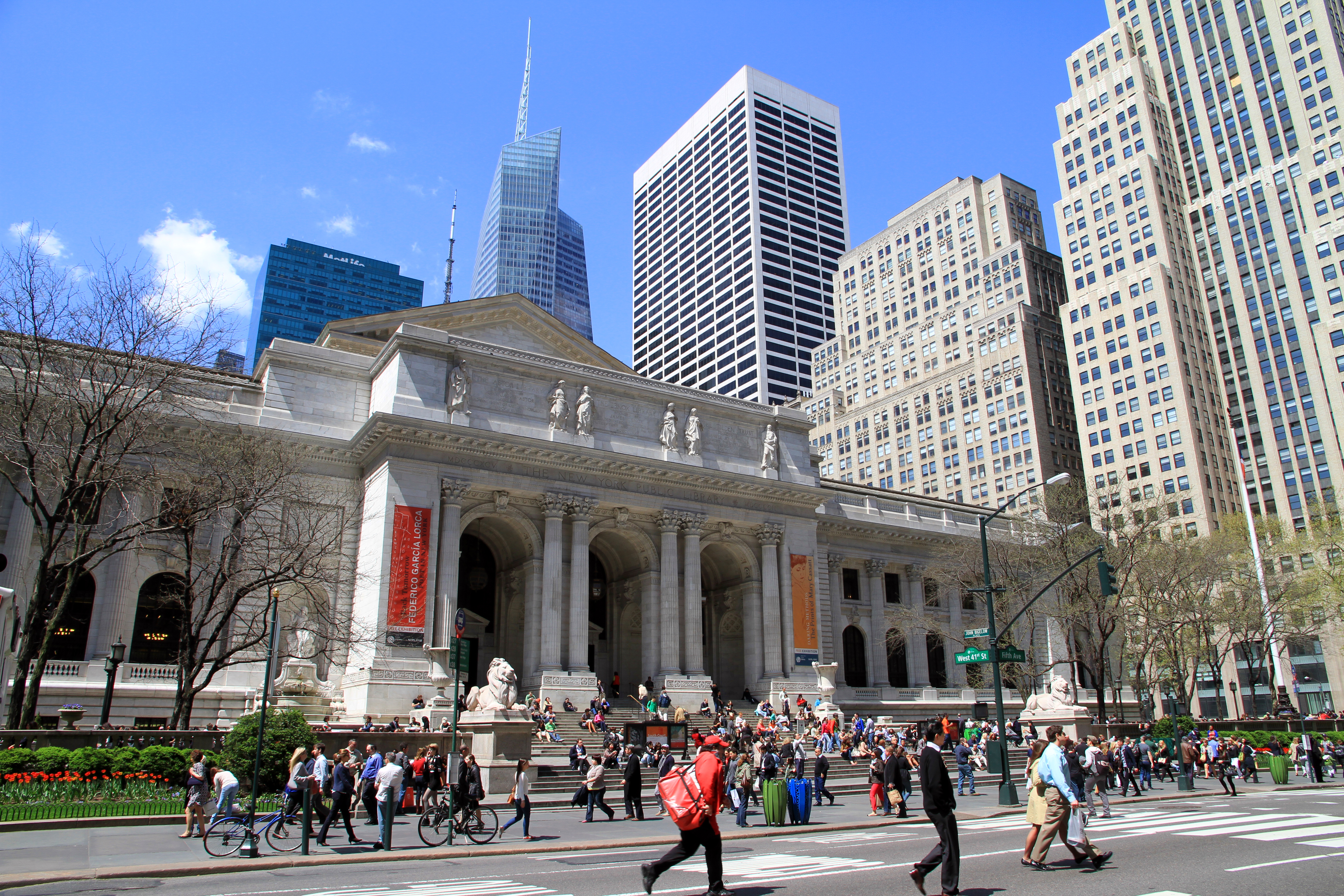 New York Public Library, 2013